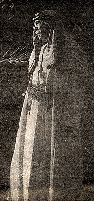 Photo of Hedley Churchward (??-1929)